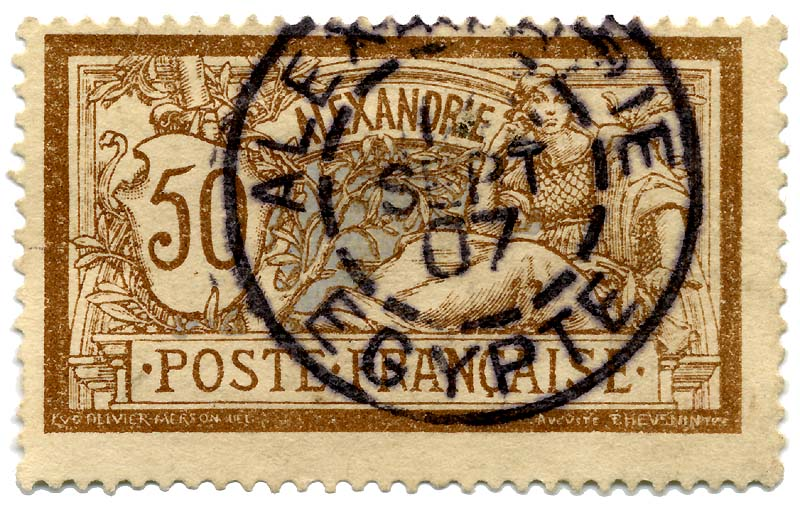 Scan of French post offices in Egypt (Alexandria) 50c stamp of 1902